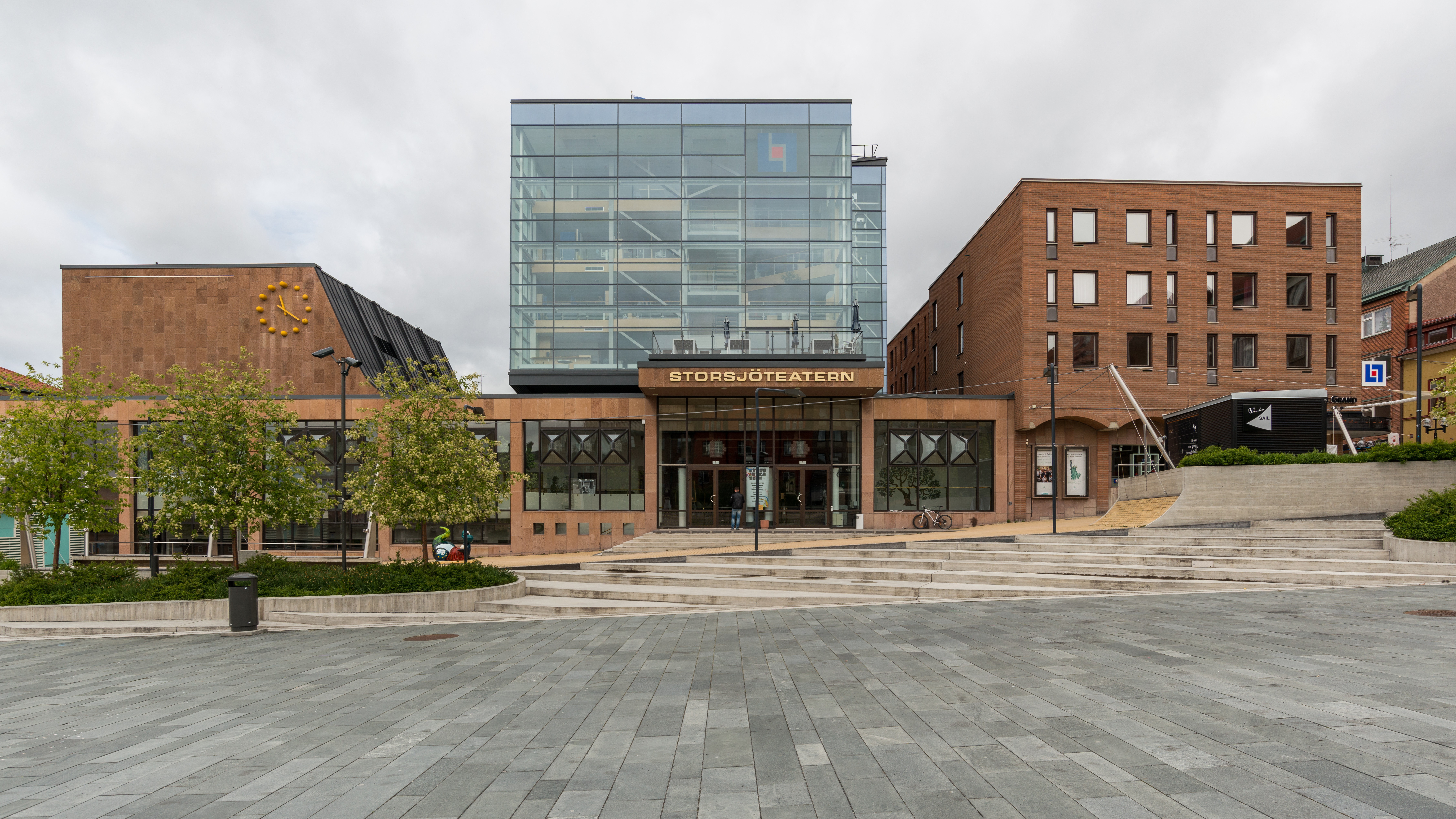 A south view of Storsjöteatern, Östersund